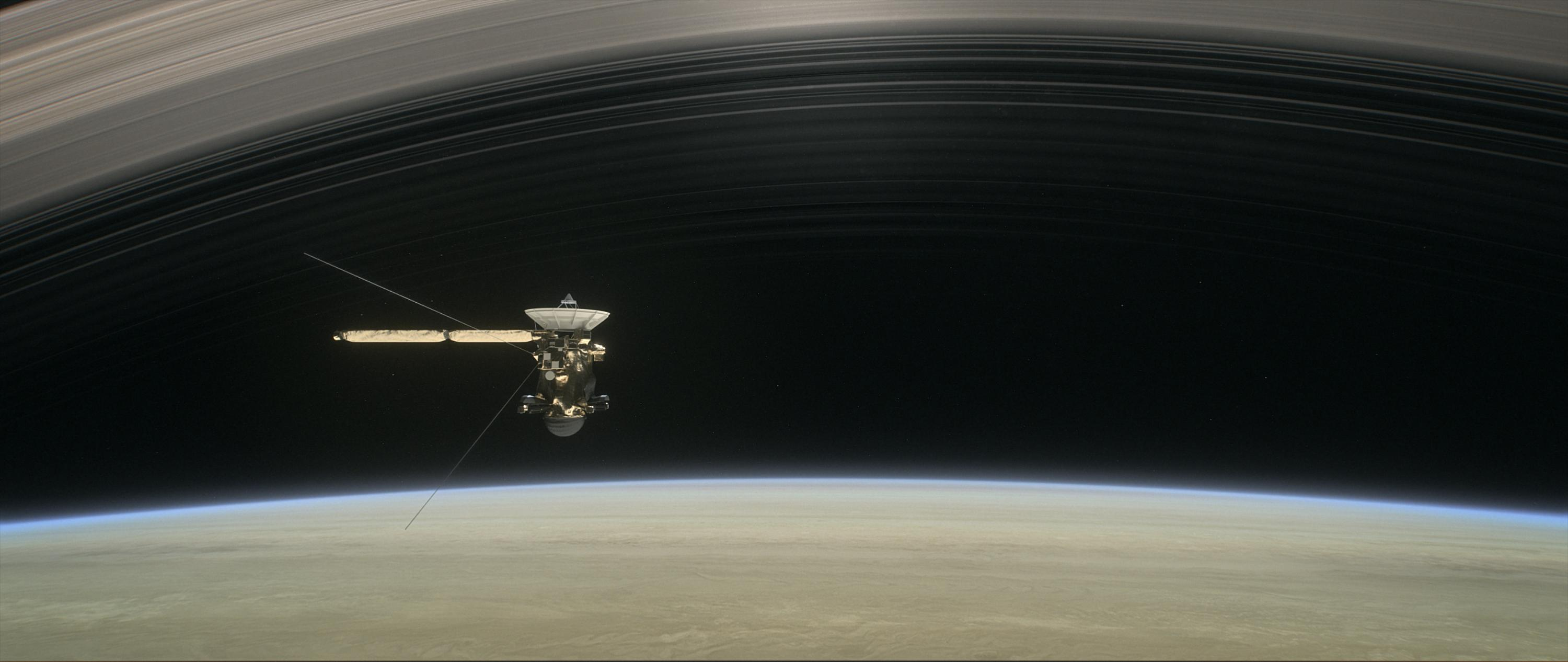 PIA22767: Grand Finale: Cassini in the Gap (Illustration) This illustration shows NASA's Cassini spacecraft about to make one of its dives between Saturn and its innermost rings as part of the mission's Grand Finale. Cassini made 22 orbits that swooped between the rings and the planet before ending its mission on Sept. 15, 2017, with a final plunge into Saturn. The Cassini mission is a cooperative project of NASA, ESA (the European Space Agency) and the Italian Space Agency. The Jet Propulsion Laboratory, a division of the California Institute of Technology in Pasadena, manages the mission for NASA's Science Mission Directorate, Washington. For more information about the Cassini-Huygens mission visit and The Cassini imaging team homepage is at